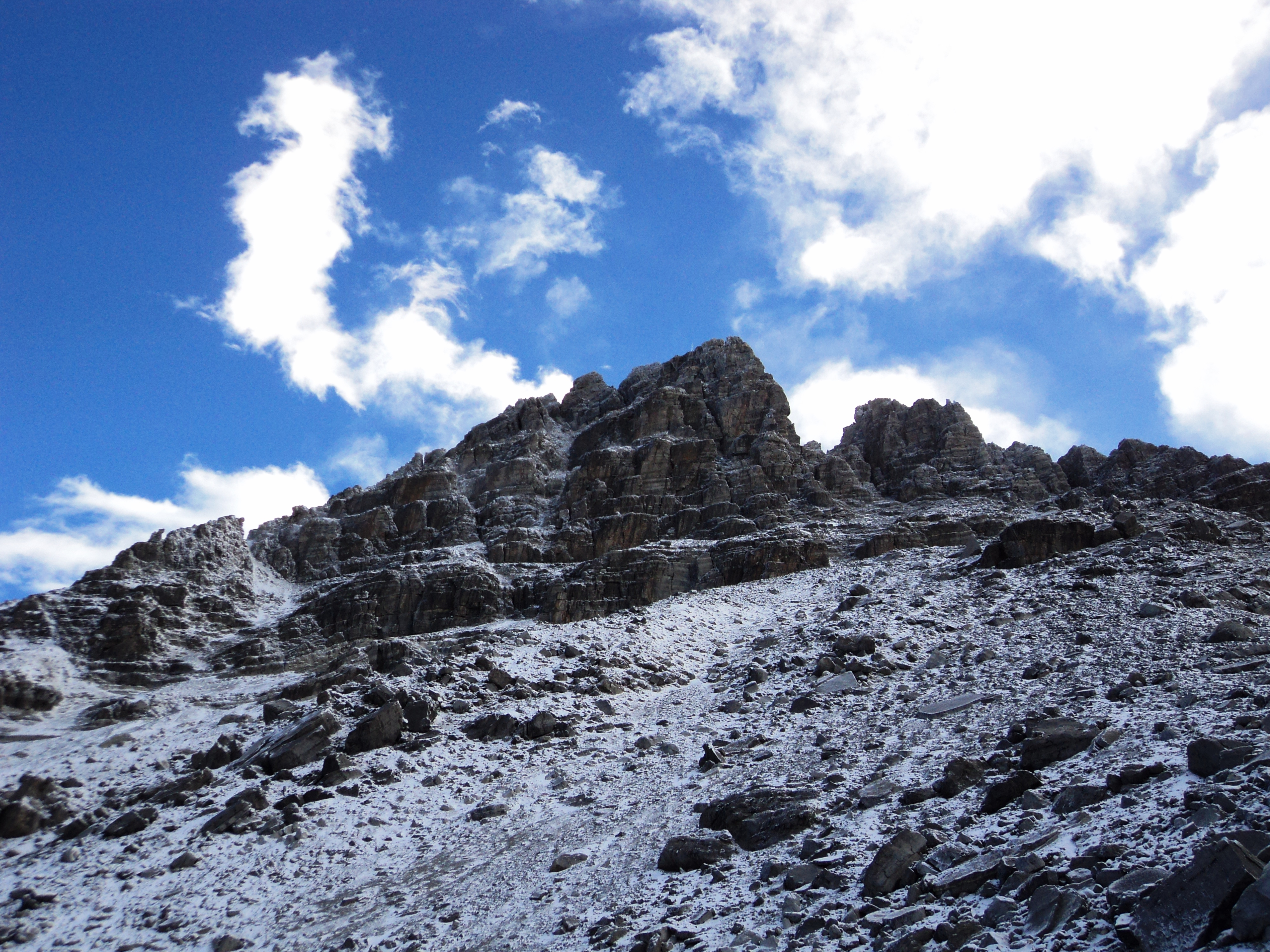 Summit Pic de Rochebrune - Cottian Alps